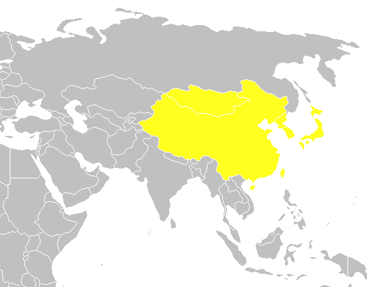 Map of East Asia UN Subregion